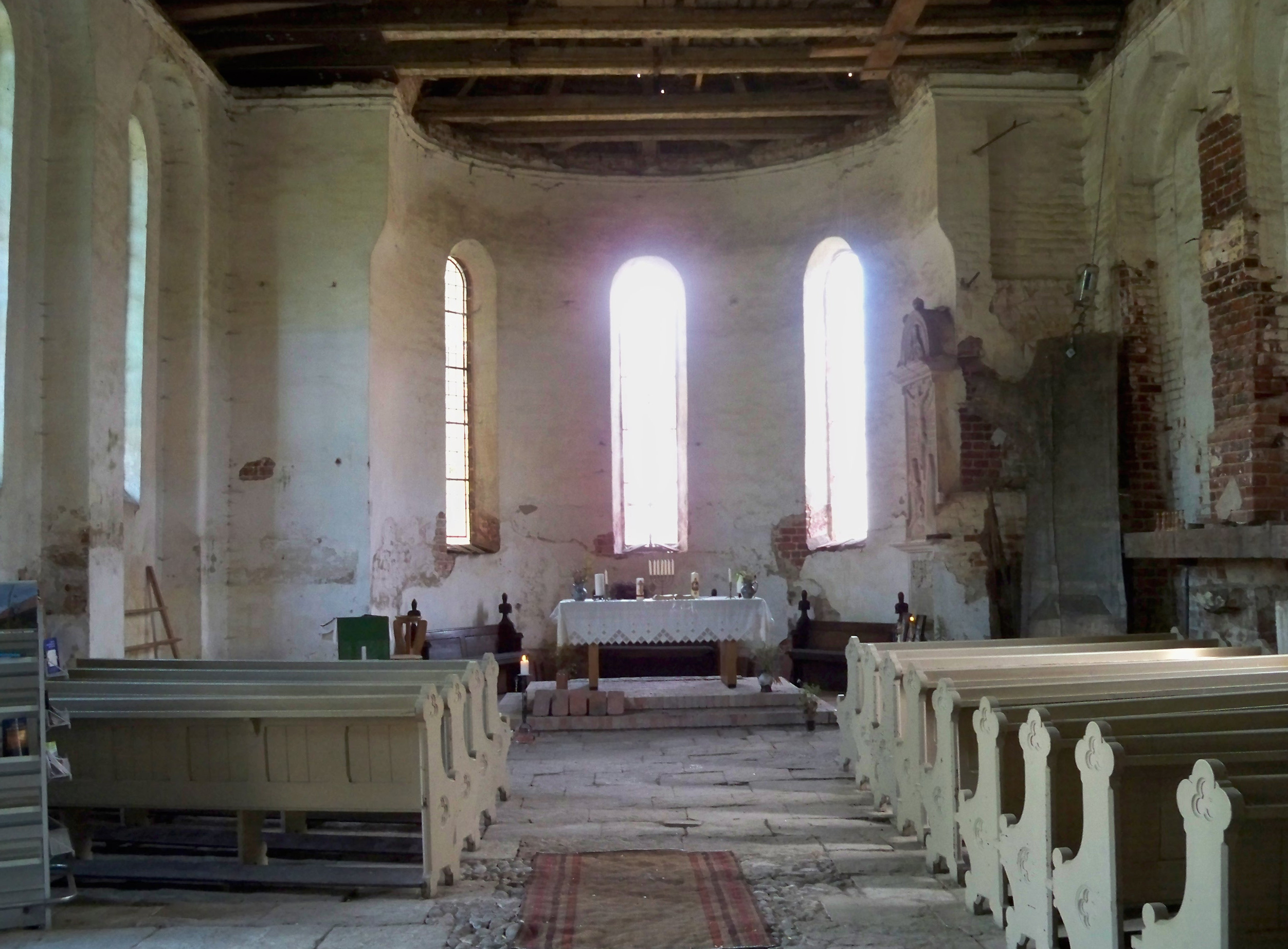 Kloster Dambeck, Saxony-Anhalt, interior of church of former monastery